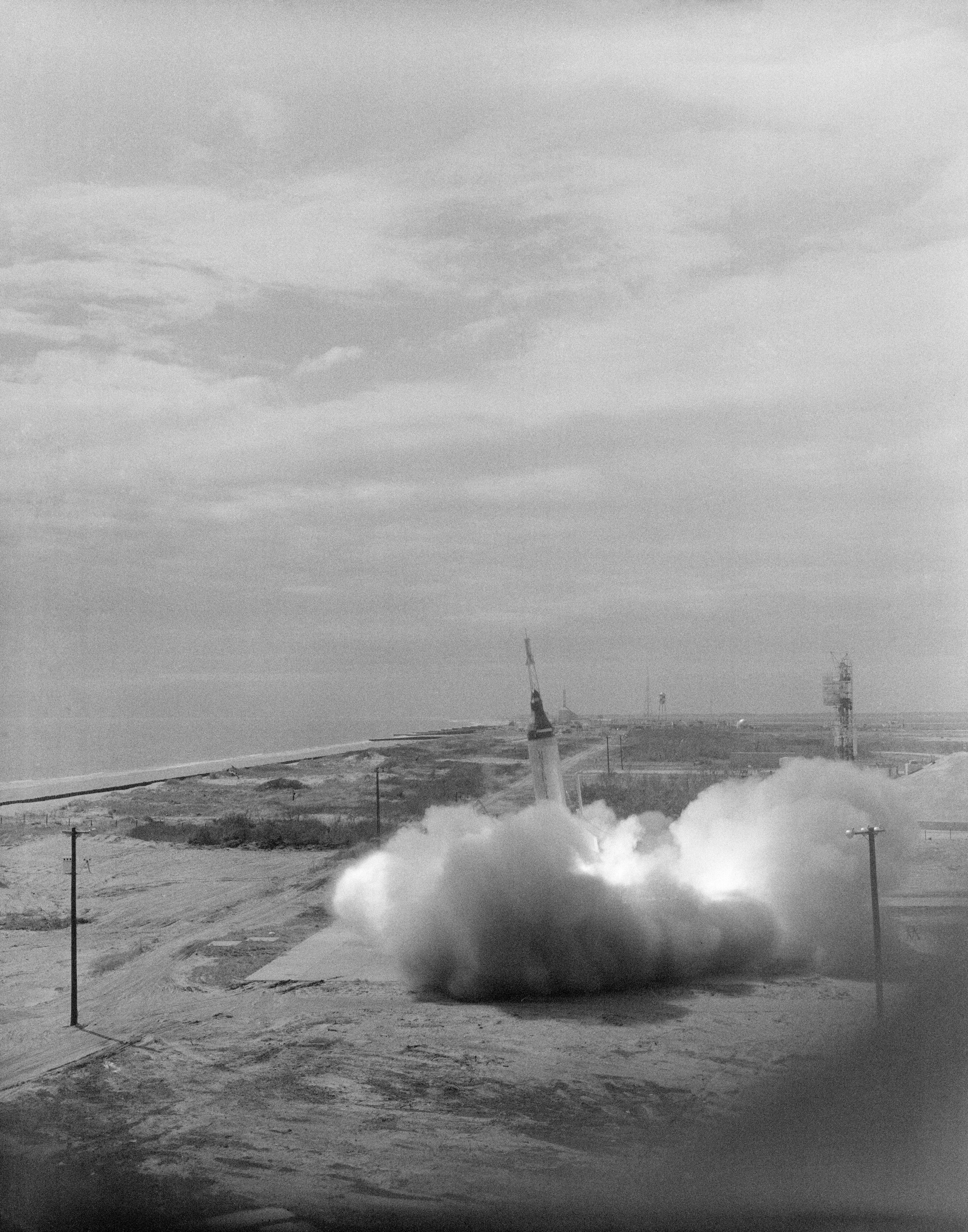 Liftoff of the Little Joe 5A spacecraft on March 6, 1961 from Wallops Island. Editorial note: The caption given at the source page is in error, and is the correct caption for image S61-01226. This is visibly identifiable as a Little Joe launch vehicle, and not a Mercury-Atlas. The image is identified correctly in the older JSC archive, at [1], however this original caption (given above) is also in error, as the launch was on March 18, 1961, not March 6th. This error is also present in the original captions for other images of this launch, and has been corrected in the 'modern' captions for other images. The error was apparently due to that the "Technical Information Summary" for the upcoming launch was released by the Space Task Group on March 6th.